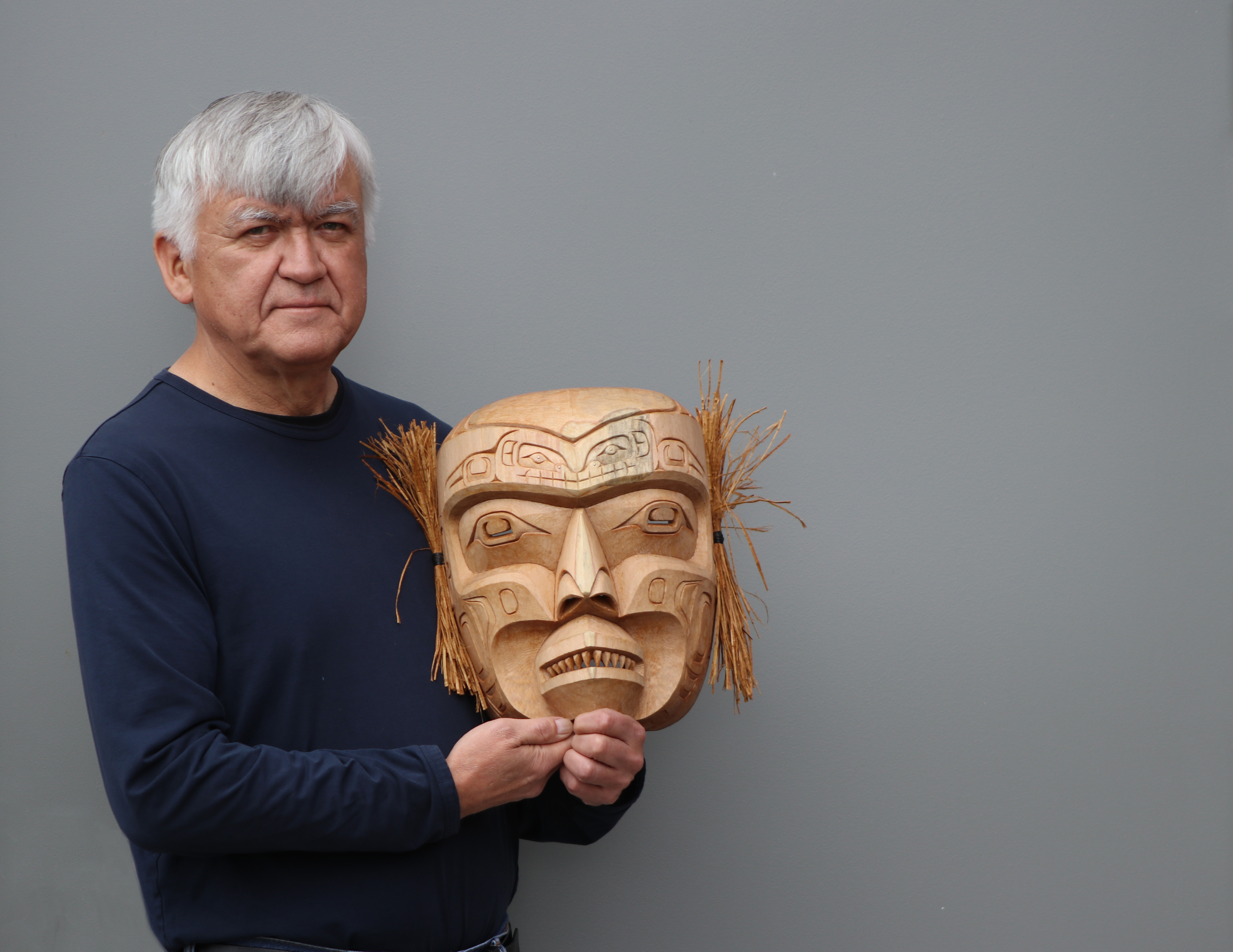 Stan Hunt, original carving of Kwakiutl mask